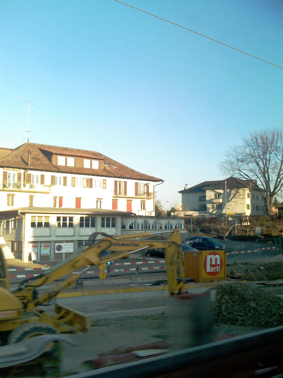 Construction work for the Glatttalbahn at the Glattbrugg railway statition - Konstrulaboroj por la Glatvaltramo ĉe la stacidomo Glattbrugg